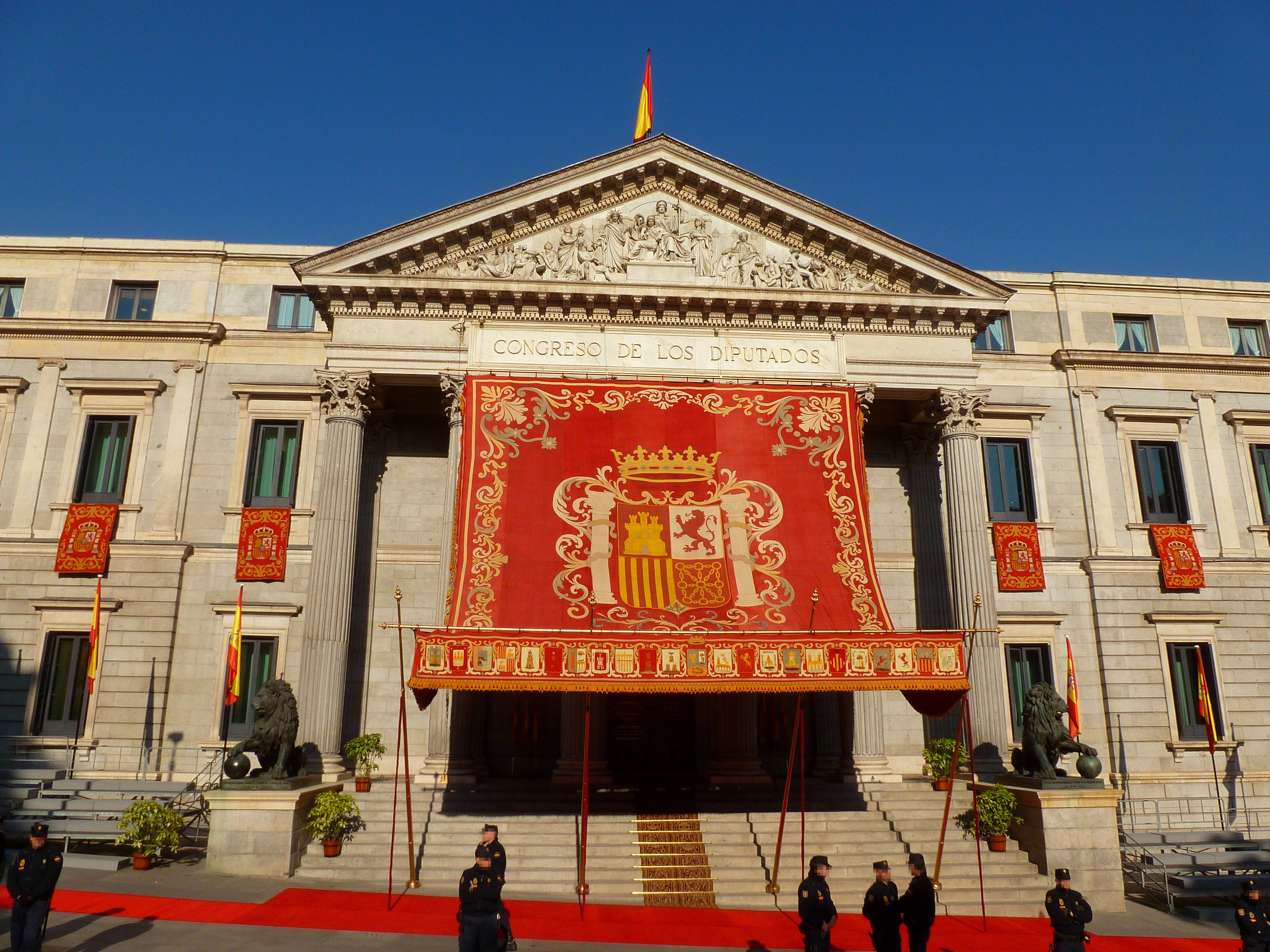 The Congress of the Deputies of Spain adorned the day of the Solemn Session of Opening of the X term of office of the General Spanish Parliament. Congress of Deputies (Inventory)Native nameCongreso de los Diputados de EspañaParent institutionCortes GeneralesLocationMadrid, (Spain)Coordinates40° 24′ 57″ N, 3° 41′ 48″ W Established1977Web page control : Q539149 VIAF: 134718539 ISNI: 0000 0001 1956 4410 GND: 1087366097 SUDOC: 03258167X BNF: 121729241 institution QS:P195,Q539149 Palacio de las Cortes (Inventory)Native namePalacio de las Cortes de MadridLocationMadrid, Spain.Coordinates40° 25′ 00″ N, 3° 41′ 59″ W Established1843–1850Web page control : Q9054619 VIAF: 173679168 ULAN: 500302409 LCCN: sh2013000847 GND: 4228303-6 BNE: XX189659 WorldCat institution QS:P195,Q9054619